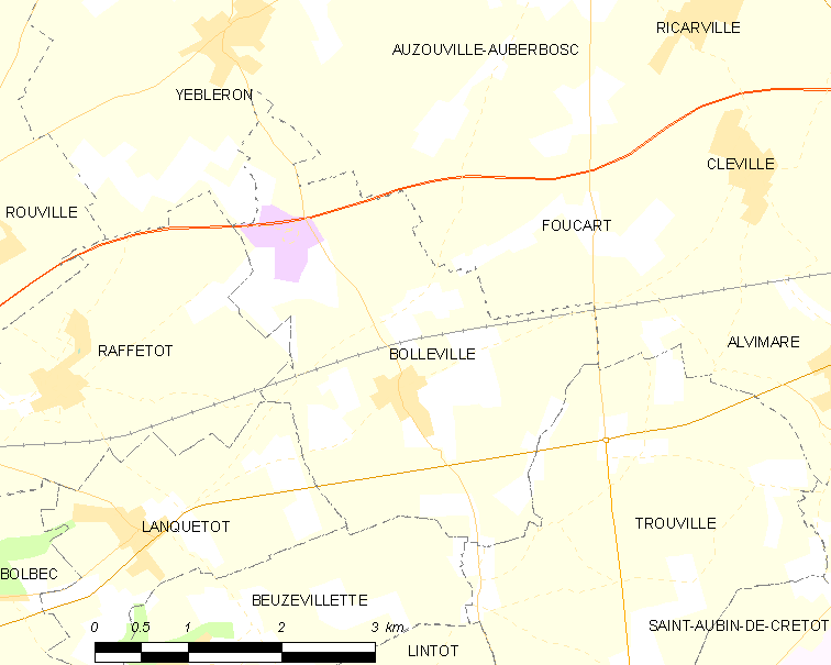 Map of French municipality Bolleville